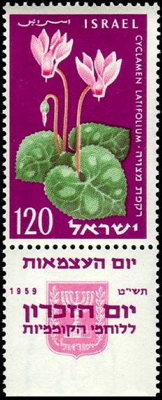 Eleventh Independence Day stamp - 120 mil - Cyclamen Latifolium. Inscription on tab: "The Eleventh Independence Day", "Memorial Day for the Fighters for Independence"